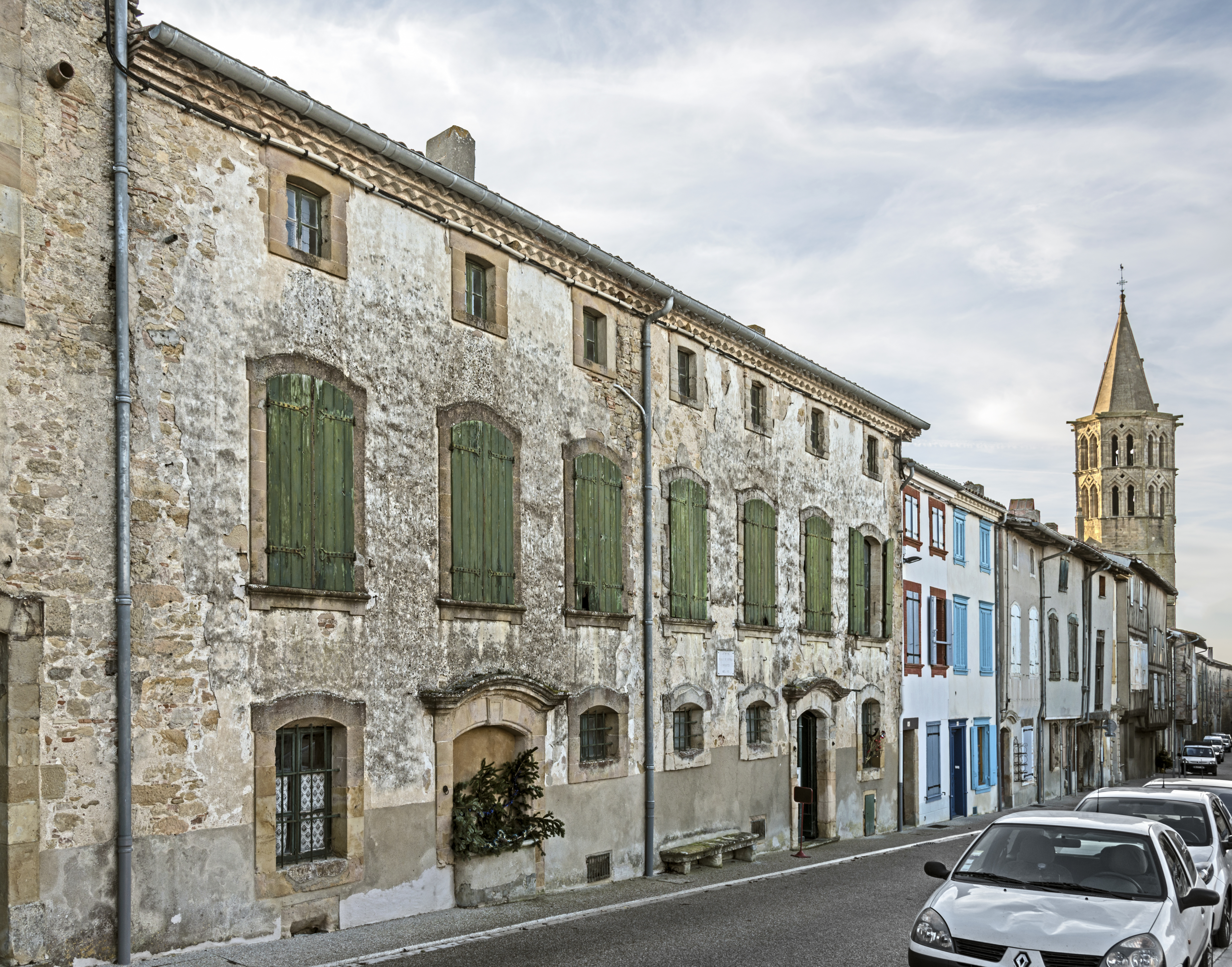 Saint-Félix-Lauragais. Facade of the house which is born the french composer Déodat de Séverac.